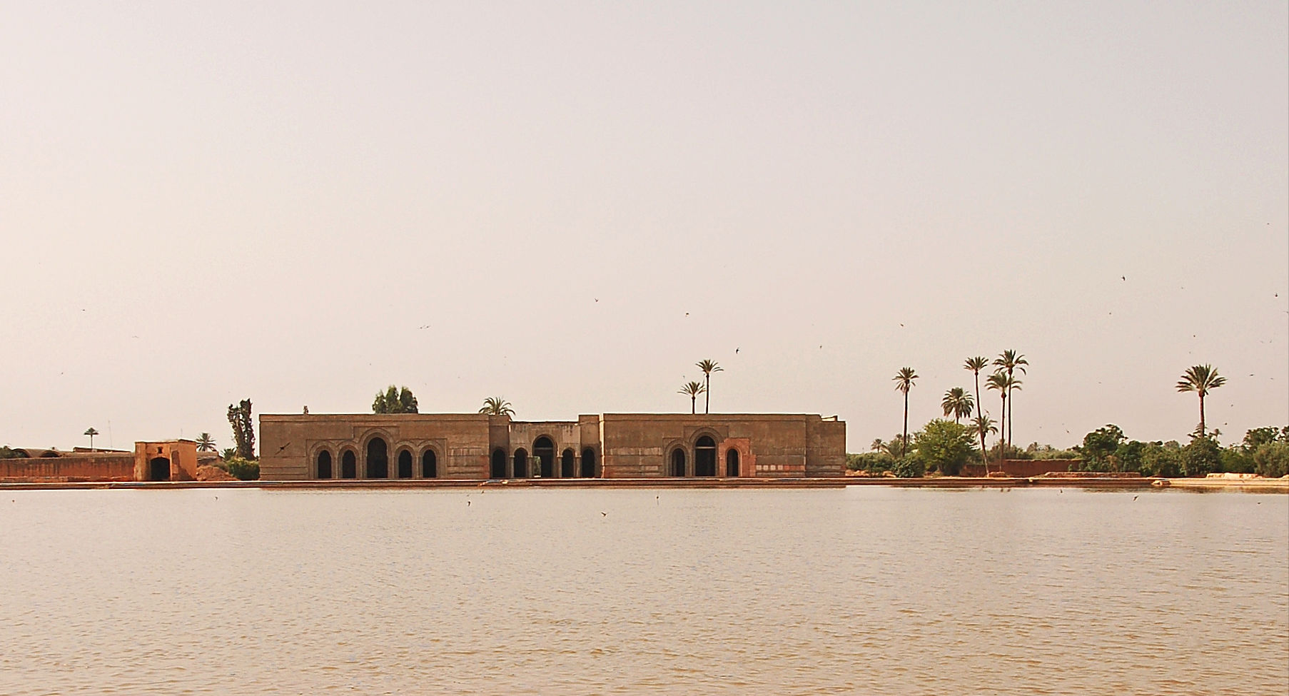 The Dar El-Hana pavilion next to the basin in the Agdal Gardens, Marrakesh.